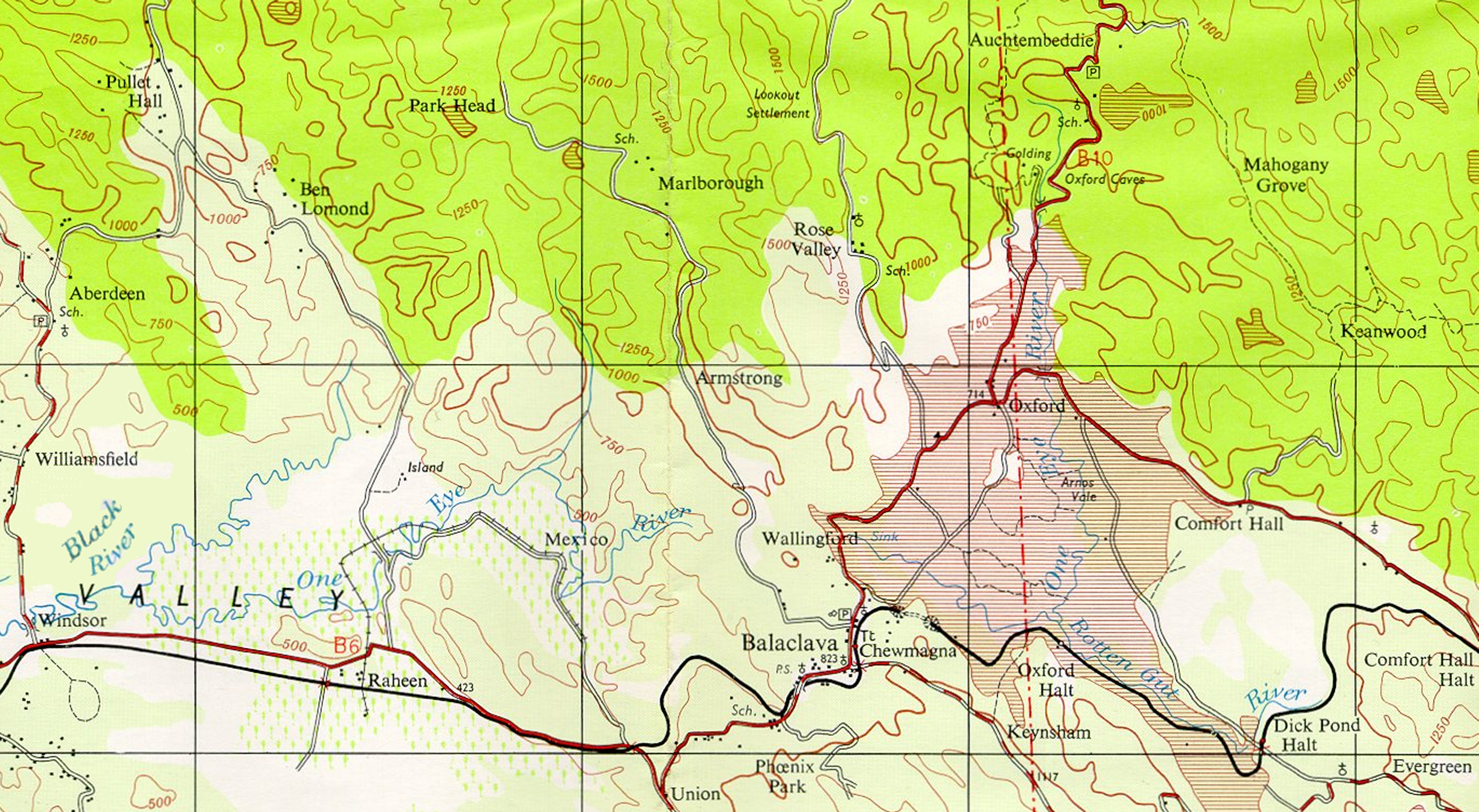 An extract from UK Directorate of Overseas Surveys 1:50,000 map of Jamaica (sheet D, 1st edition, 1959), showing the headwaters of the Black River.